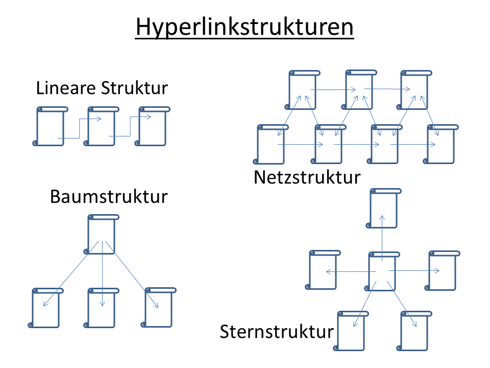 hyperlink structures